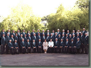 Pontypridd Male Voice Choir